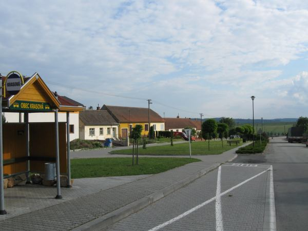 Krasová, Blansko District, Czech Republic.